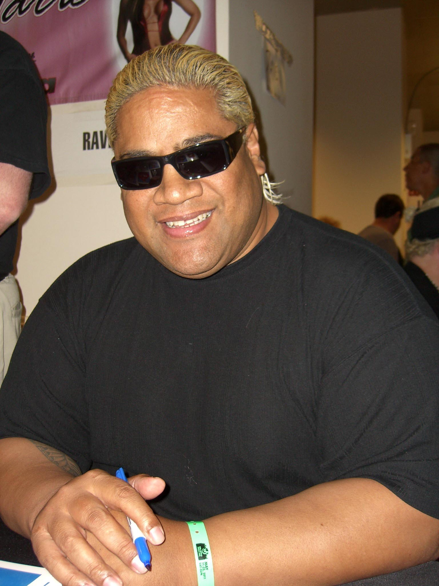 Professional wrestler Rikishi at the Big Apple Convention in Manhattan, May 22, 2011. Photographed by Luigi Novi. This photo is not in the public domain. It may, however, be used, modified and published for any purpose, free of charge, only if the photographer is properly credited, either by linking the photograph to this page, or with an easily visible credit to the photographer placed near the photo in each instance in which it is used. (See licensing information below.) Publication of this photo without this proper attribution constitutes copyright infringement. If you have any questions, you can contact me on my Wikipedia Talk Page.